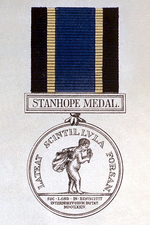 Derivitive from File:Royal Humane Society; medals of the society Wellcome L0014140.jpg